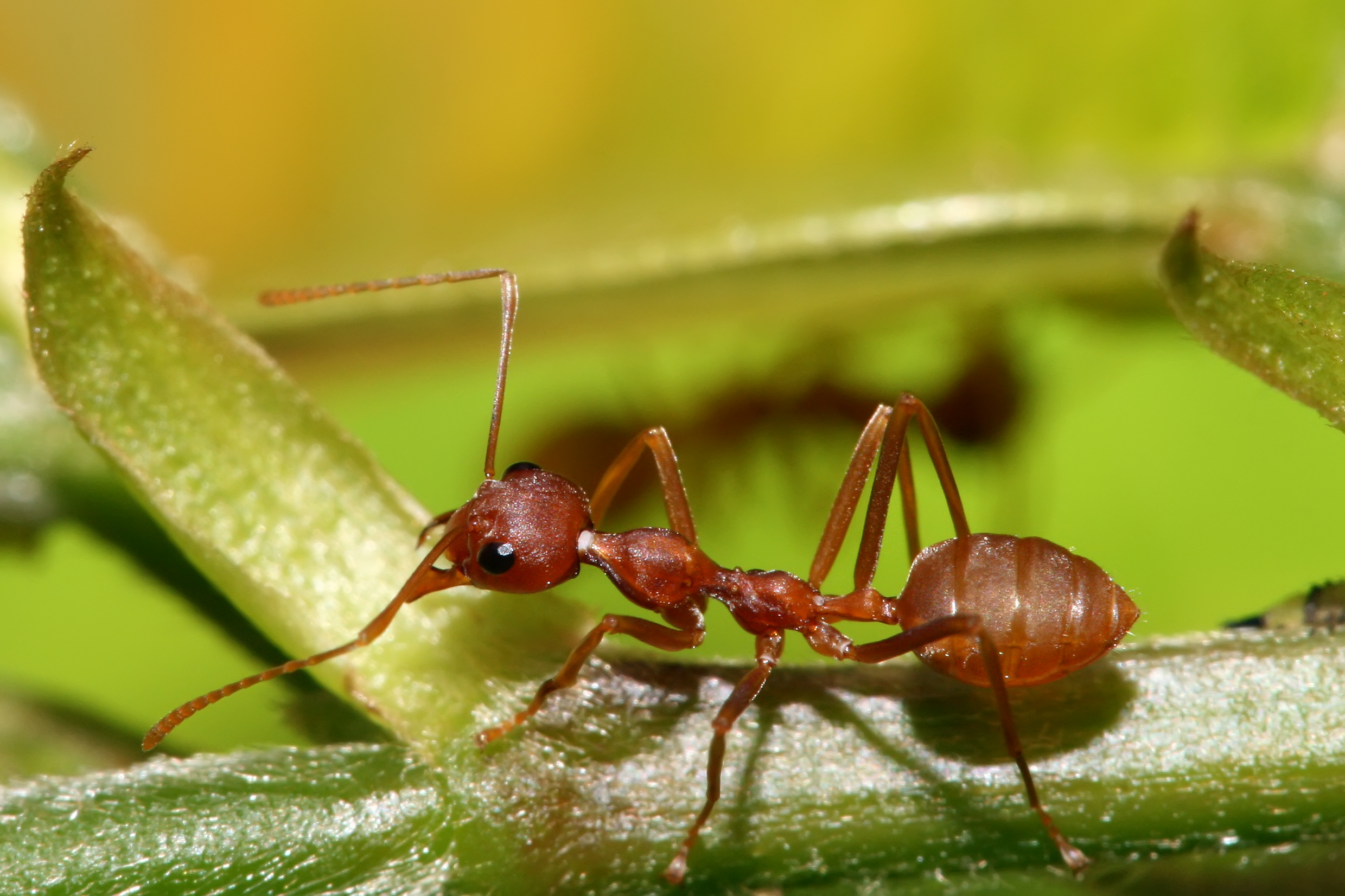 Red Weaver ant, Oecophylla longinoda in Morogoro, Tanzania